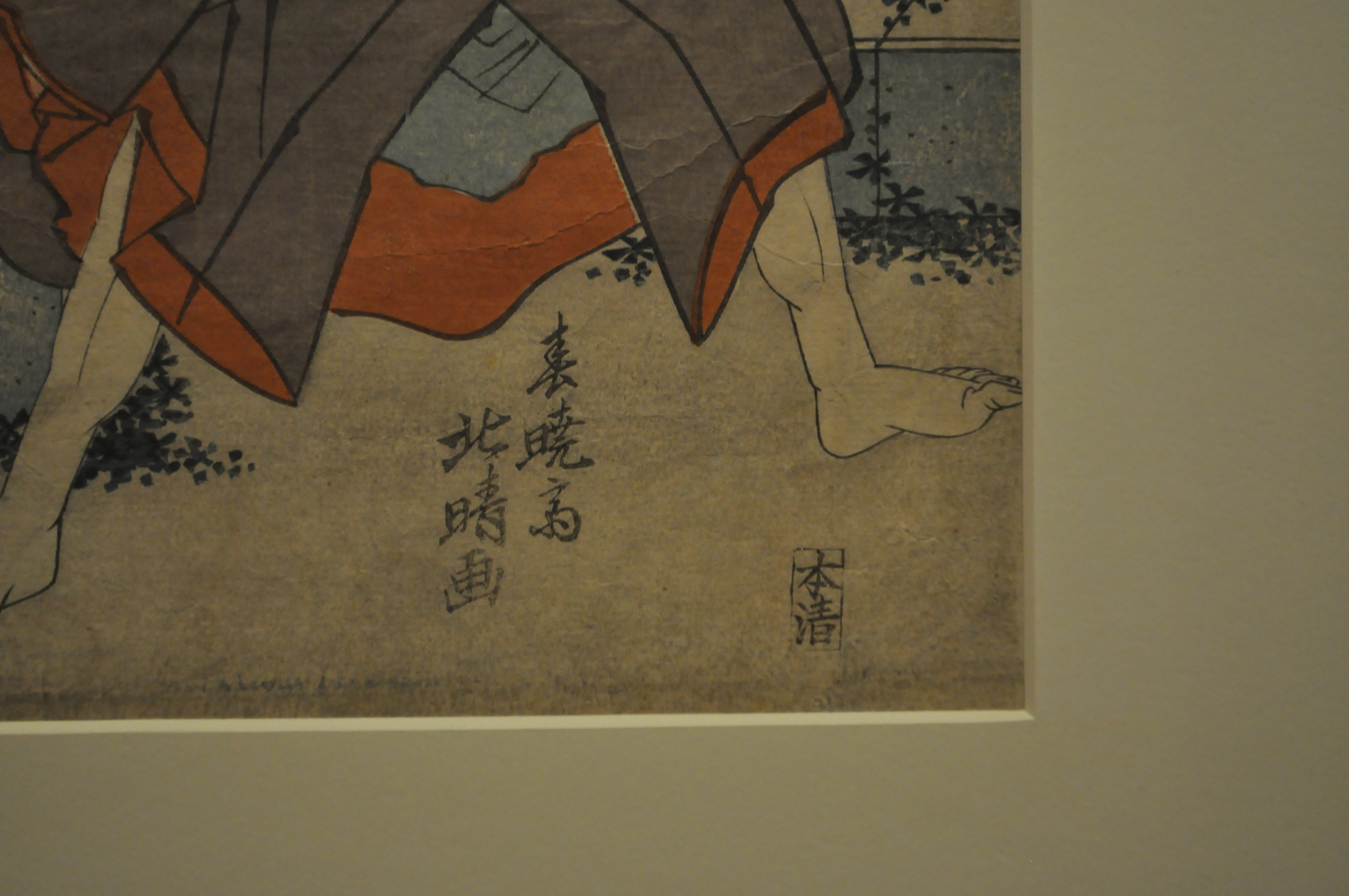 Actor Nakamura Shikan II as Satake Shinjuro (Shungyosai Hokusei) - Signature and seal detail